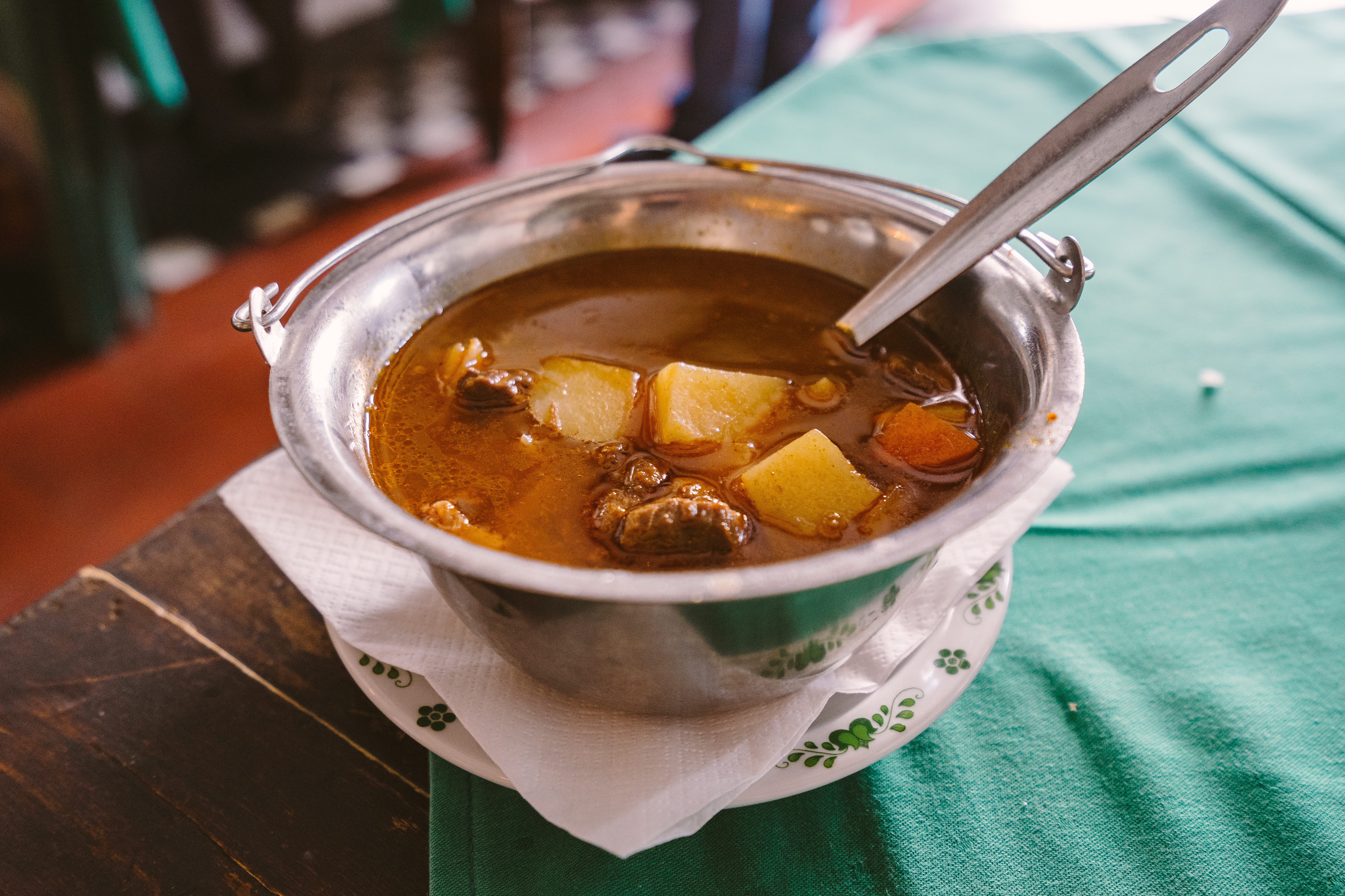 Korona Restaurant goulash